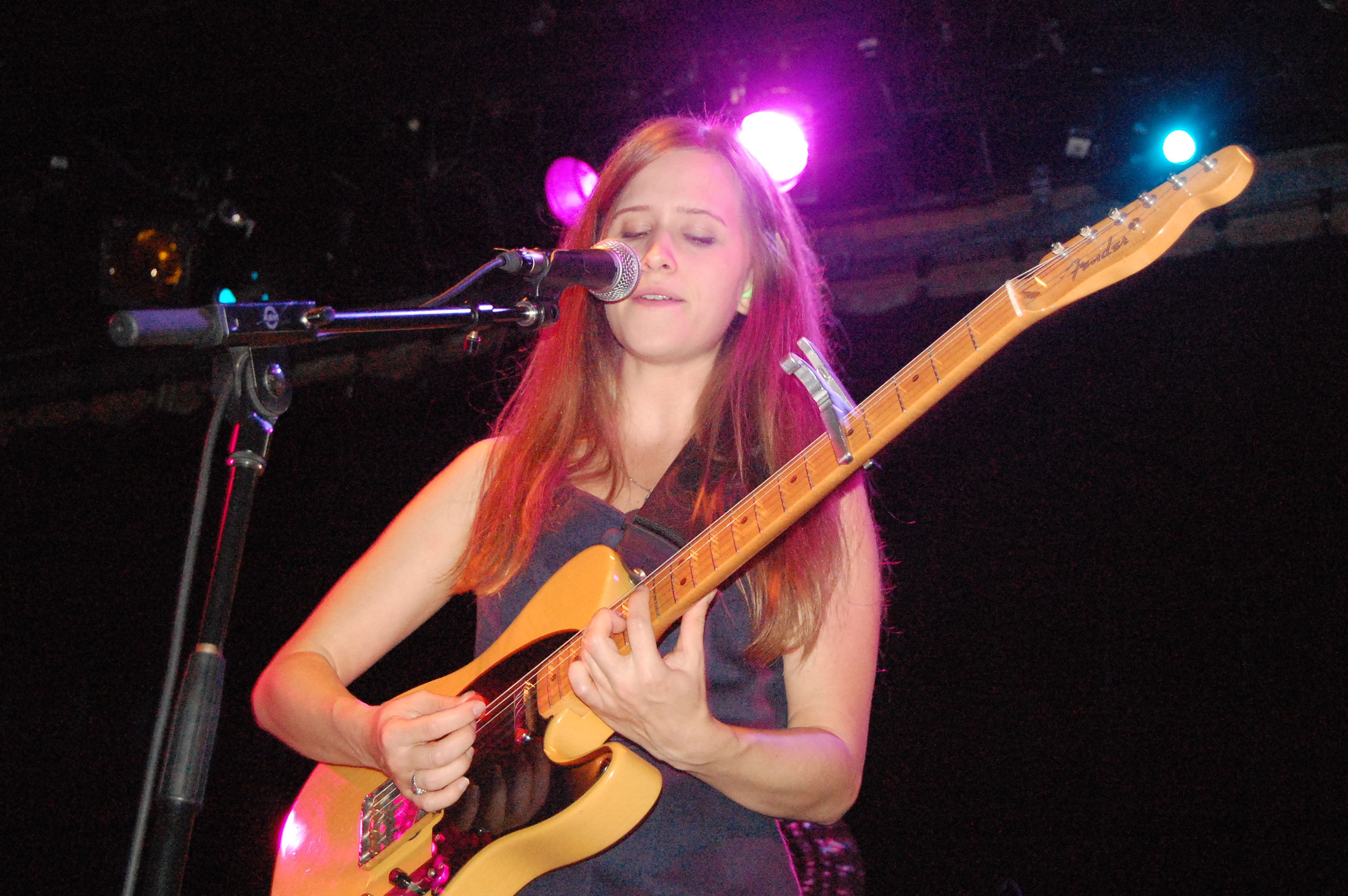 Amber Coffman (2009)